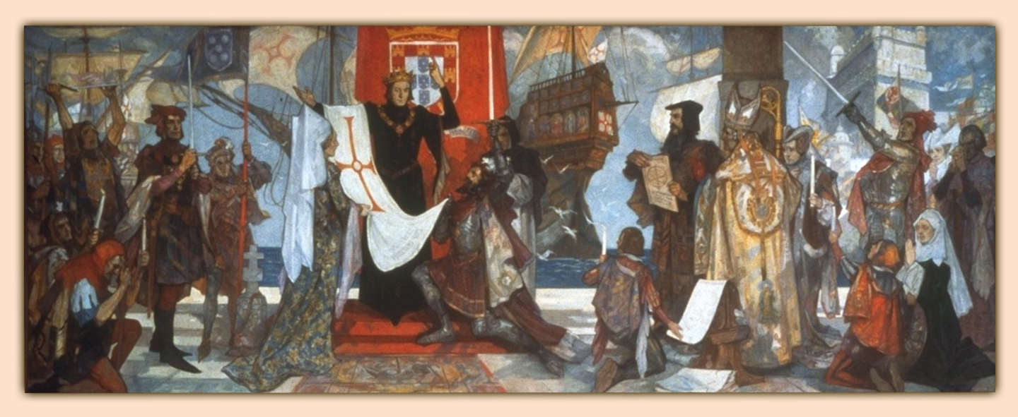 Vasco da Gama Leaving Portugal, mural by John Henry Amshewitz, RBA (1882-1942); British/South African. In the painting, Abraham ben Samuel Zacuto is shown presenting his astronomical tables to da Gama before his departure from Lisbon in 1497. The mural resides in the William Cullen Library at the University of the Witwatersrand, Johannesburg.